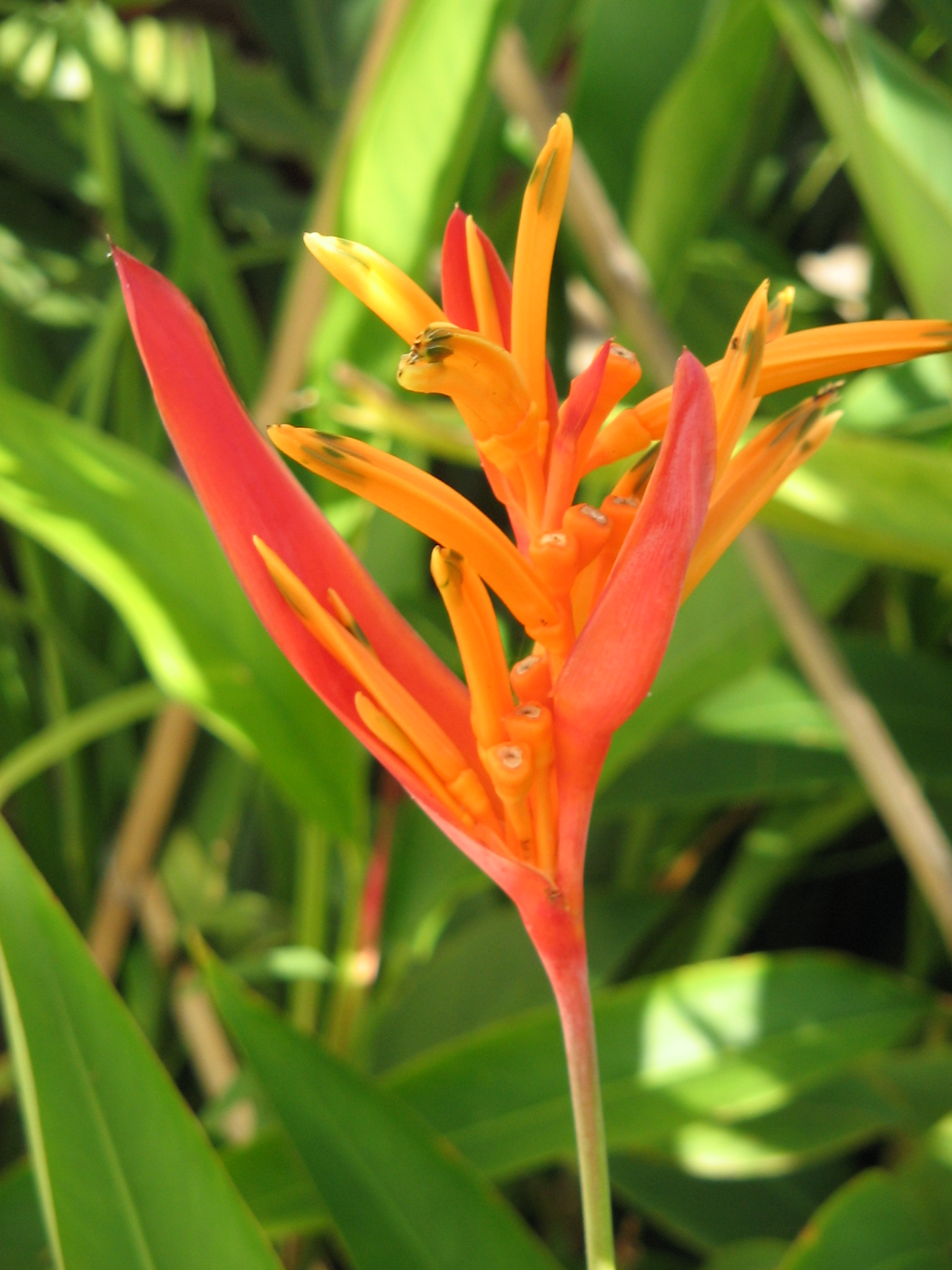 Heliconia aurantiaca